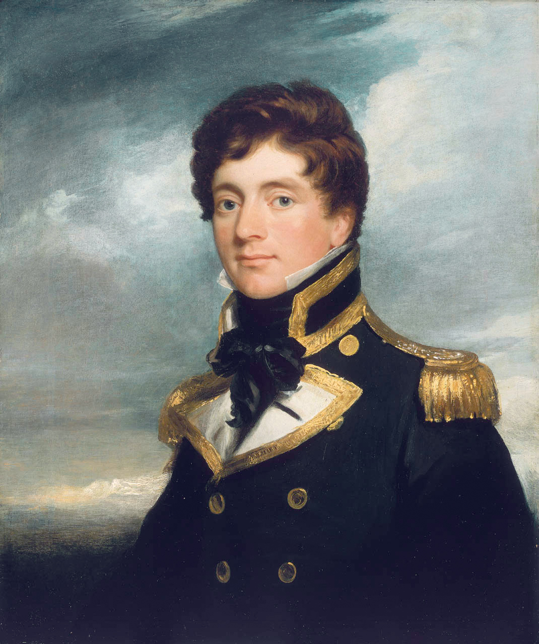 Frederick William Beechey, portrait by George Duncan Beechey, painted circa 1822